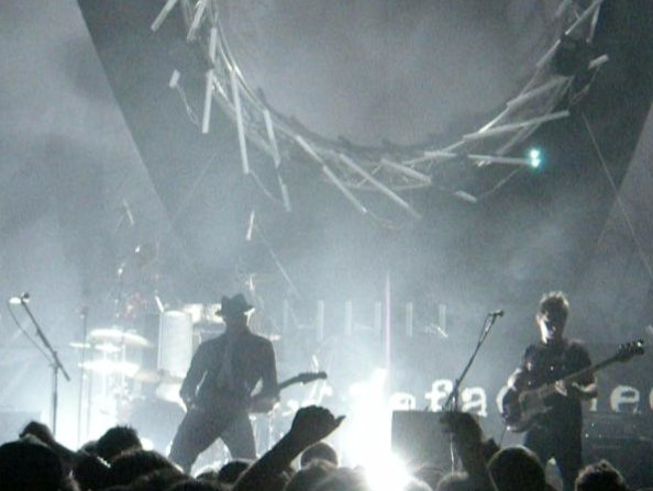 Double Faced Eels at concert in Arena Riga